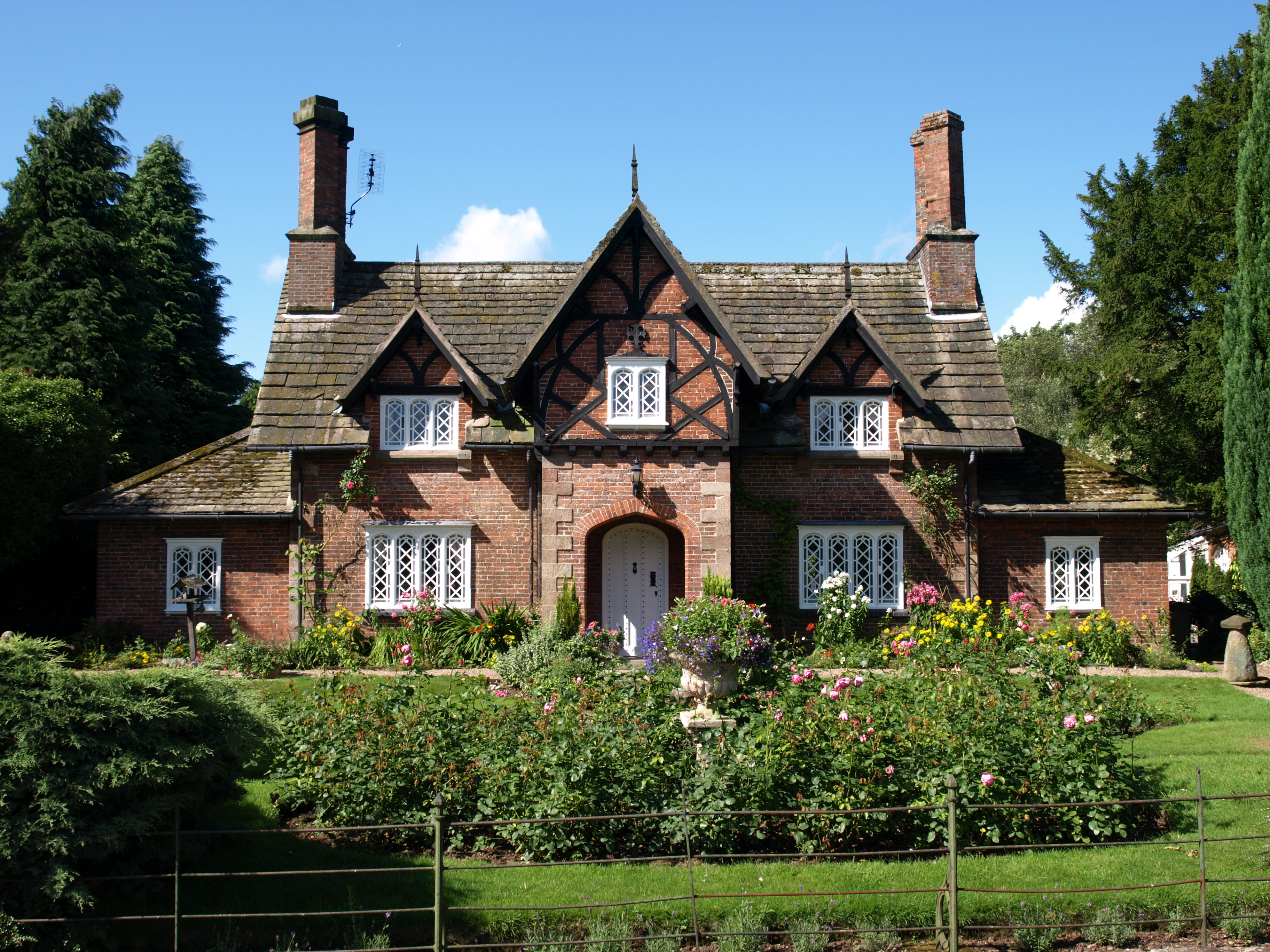 Baliff's Cottage, Snelston, Derbyshire